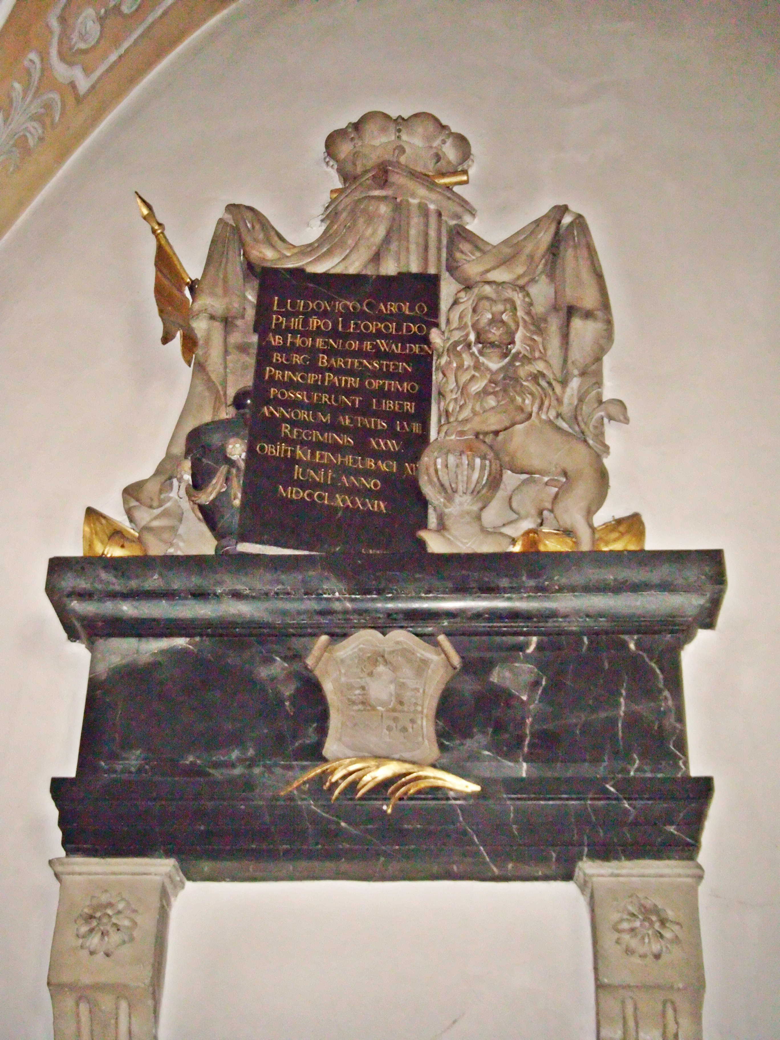 Epitaph Fürst Ludwig Carl Franz Leopold zu Hohenlohe-Bartenstein (1731-1799), Kloster Engelberg, Großheubach